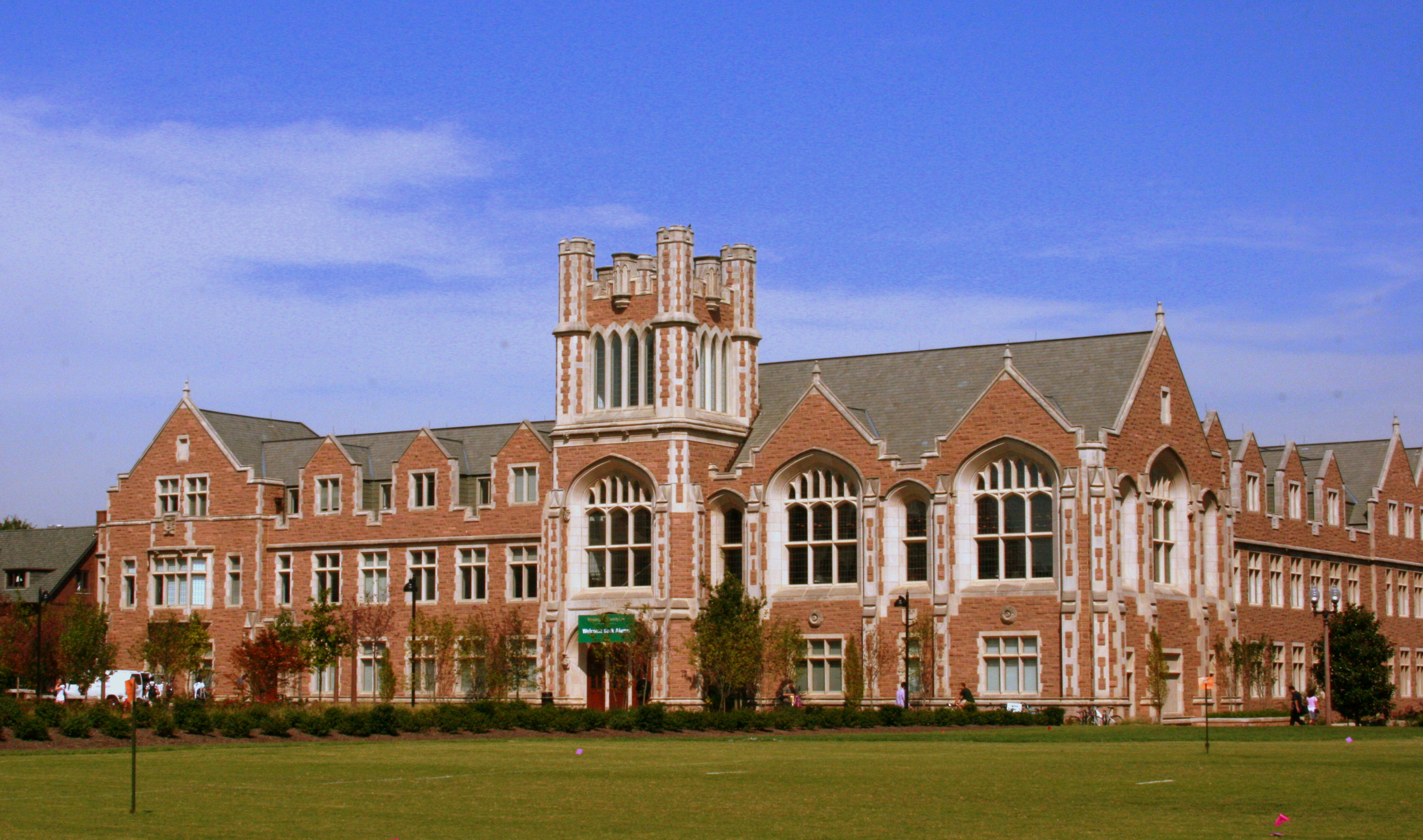 Anheuser Busch Hall, home to the Washington University School of Law.